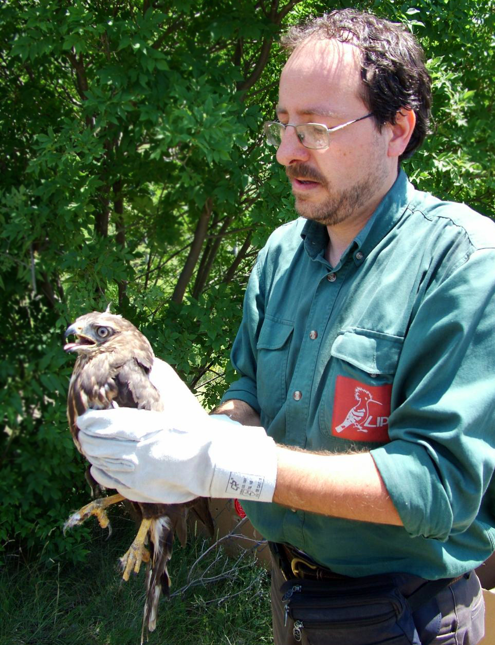 LIPU Oasis